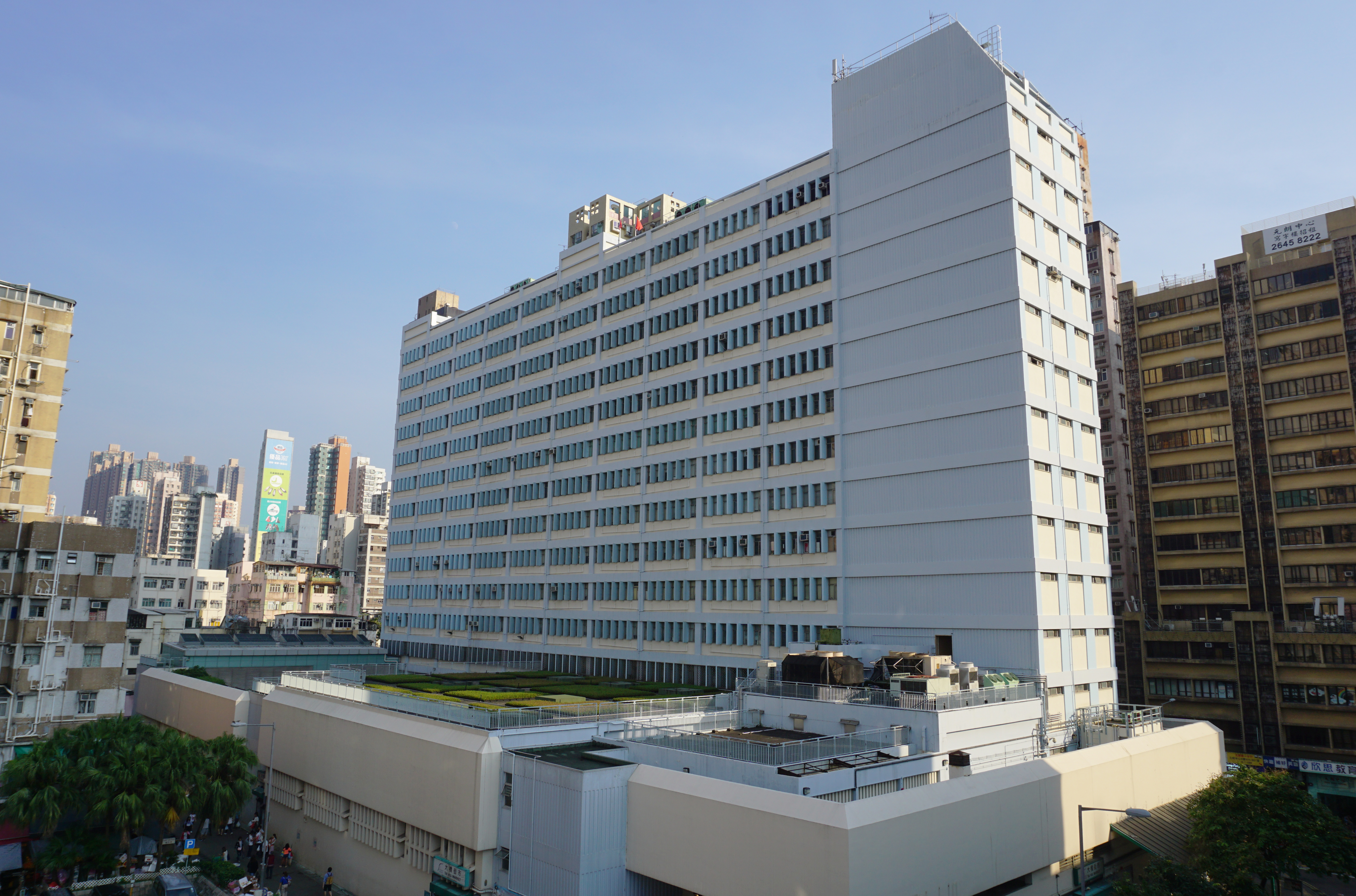 Yuen Long Government Offices in Long Ping, Hong Kong.